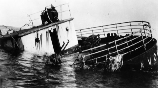 Wreck of Steamer Savonmaa, outside Mandal, Norway, partially above the waterline, 1937